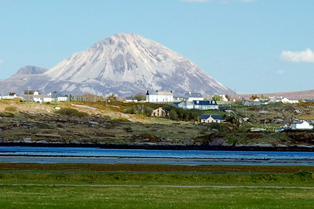 Donegal Carrickfin Airport - View to the east Shown in the foreground is the peninsula that the airport is located on and a small bay east of that peninsula. Shown in the near background is part of a residential area near Rinnafarset. Beyond that is the awesome sight of Mount Errigal.